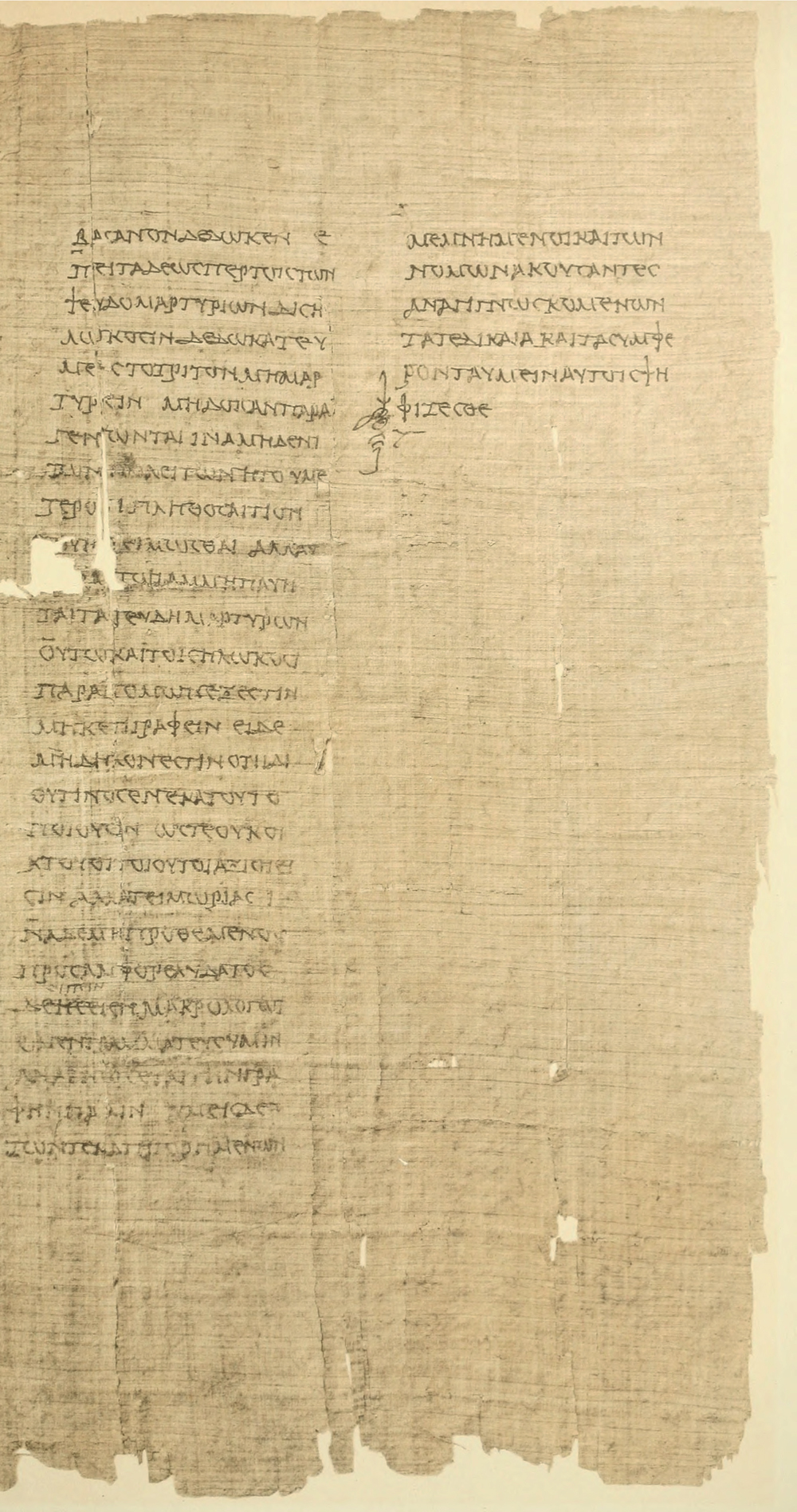 P.Lit.Lond. 134, cols. VIII-IX, containing the end of Hyperides' In Philippidem.